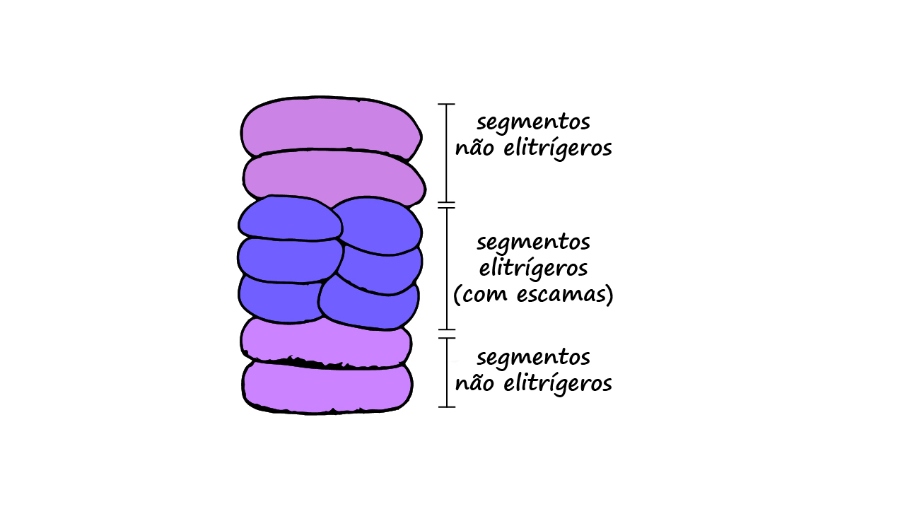 Schematic representation of segmentation in scale-worms